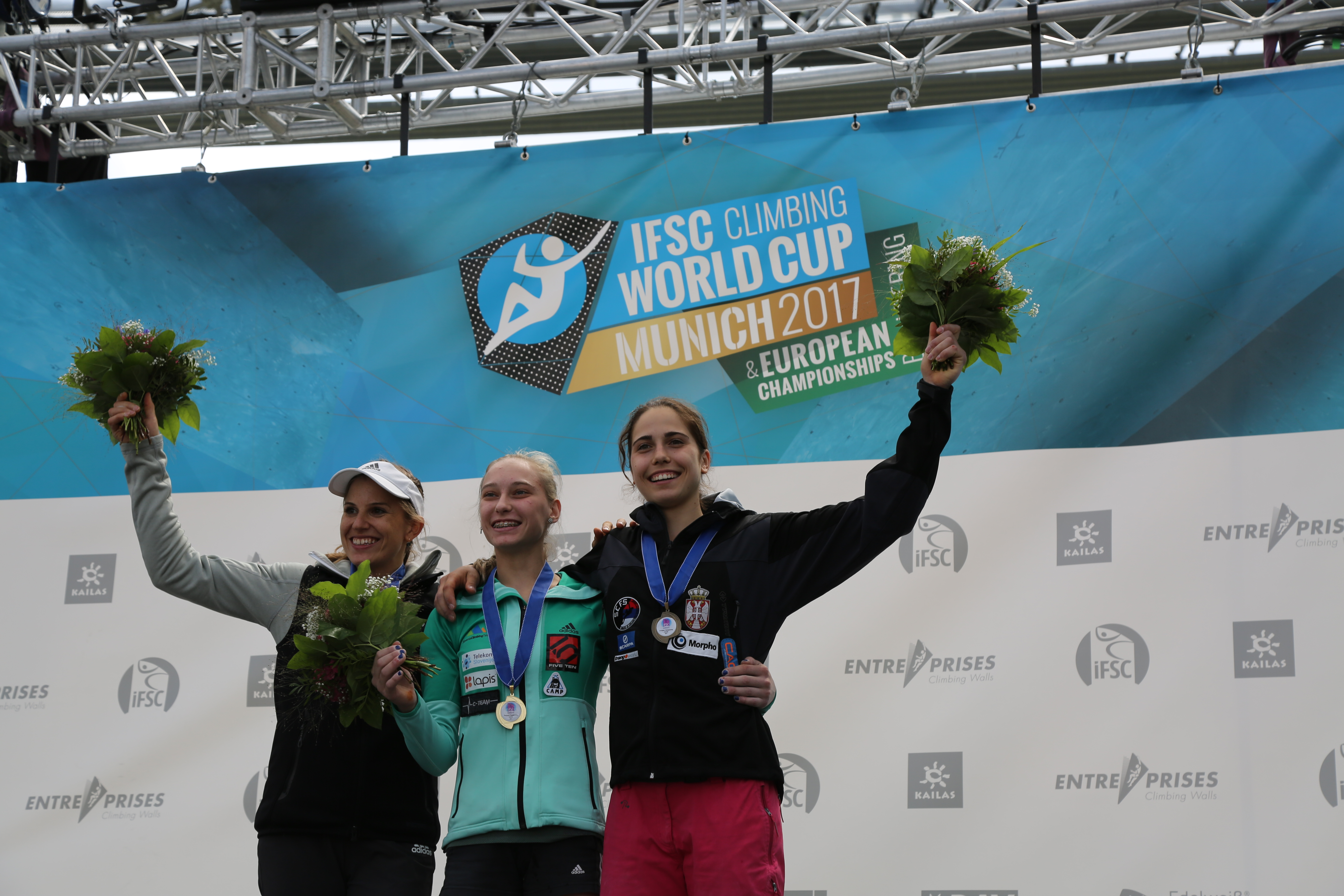 Winners of the European Championship in climbing, combined disciplines, women, at the Boulder Worldcup 2017 in Munich, Germany. 1st Place: Janja Garnbret SLO, 2nd Place: Petra Klingler SUI, 3rd Place: Stasa Gejo SER